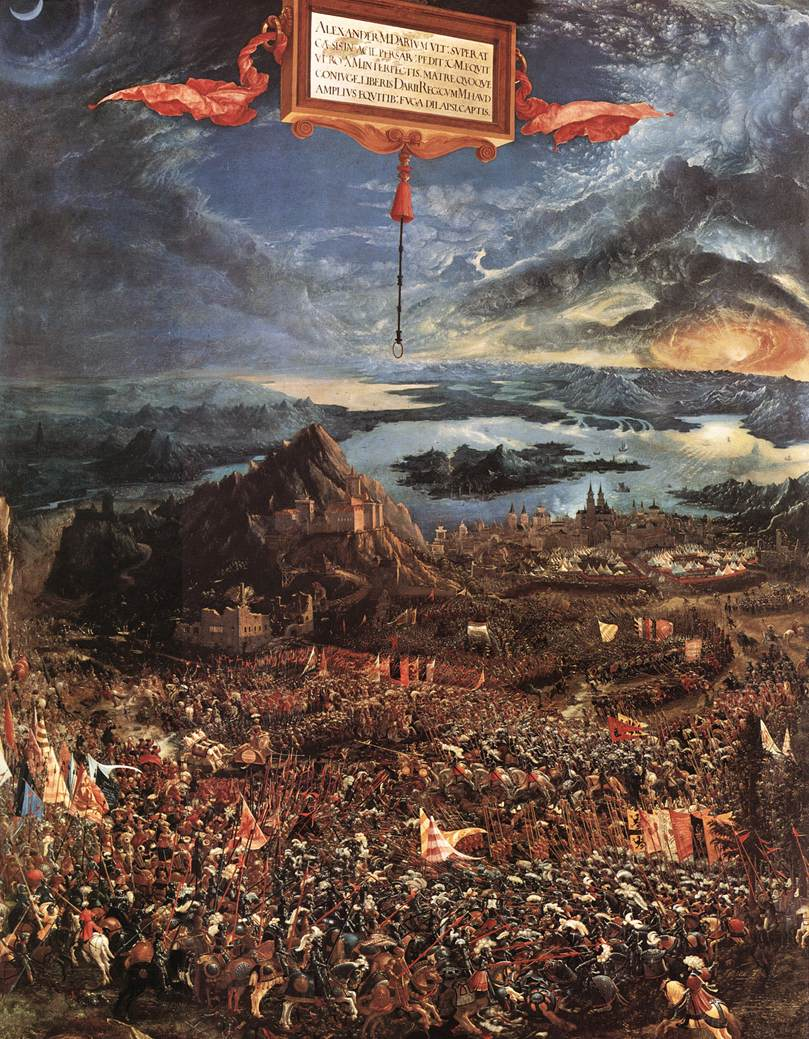 Battle of Alexander the Great against Persian King Darius